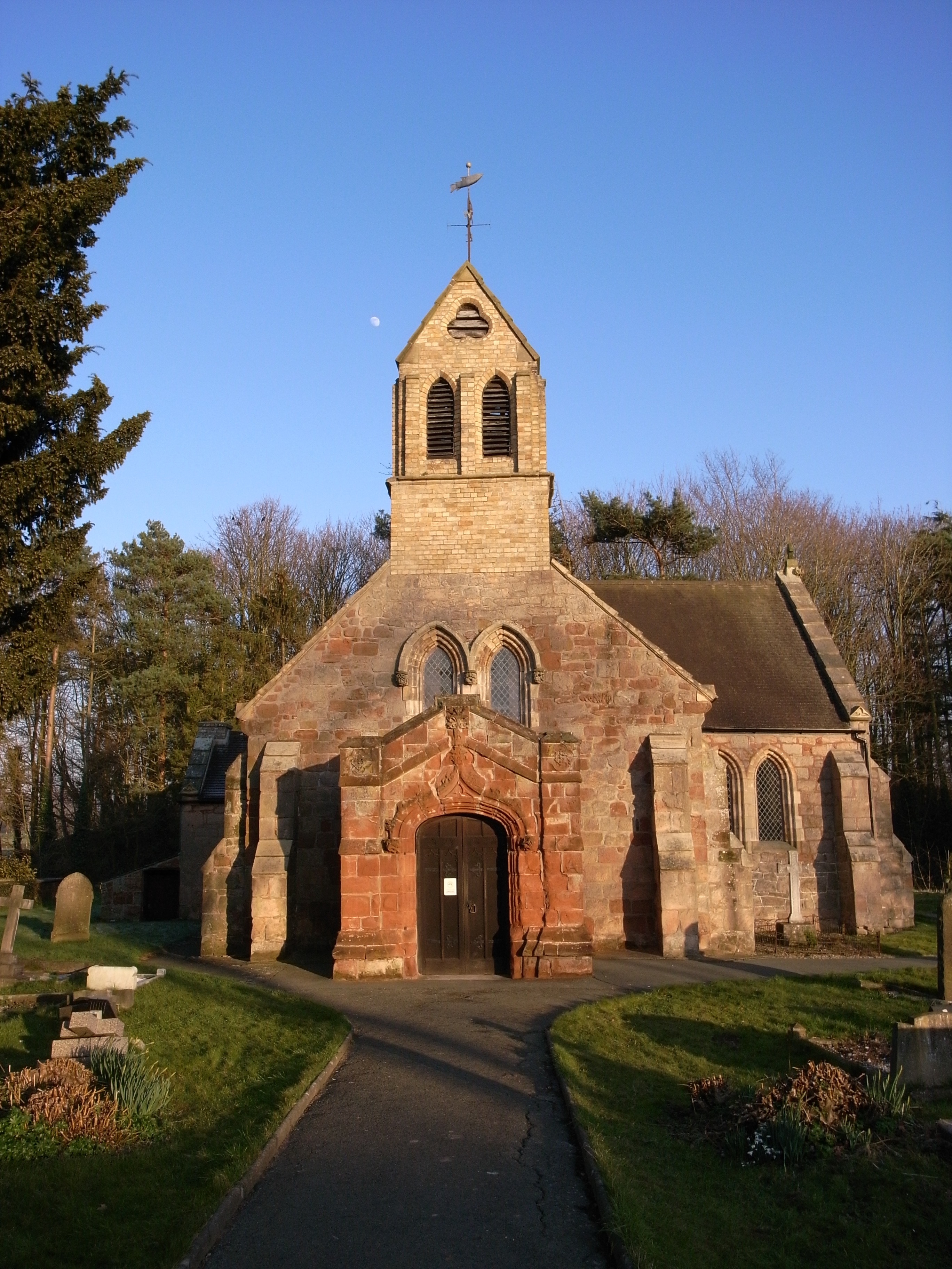 St Mary's parish church, Knockin, Shropshire, seen from the west